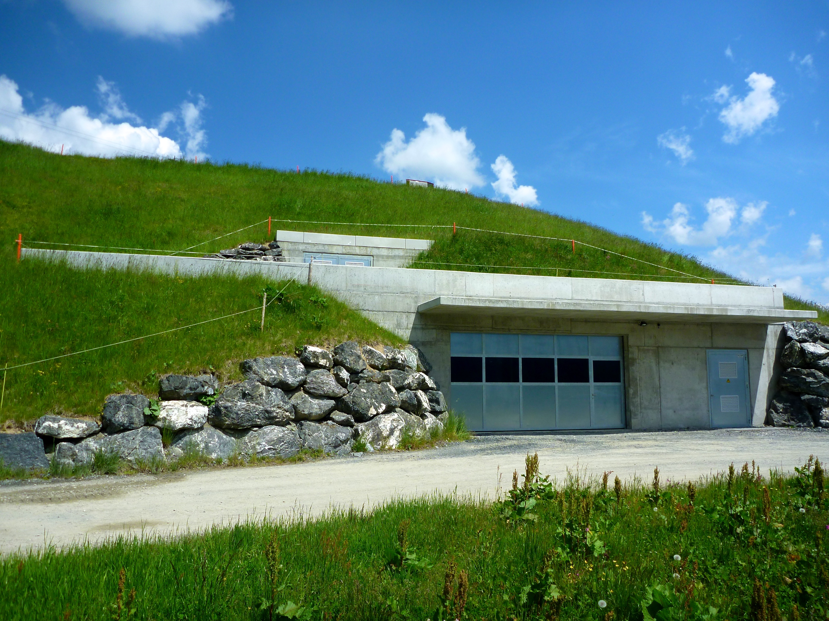 control facility of Speichersee Hintere Hütte at Arosa, Switzerland